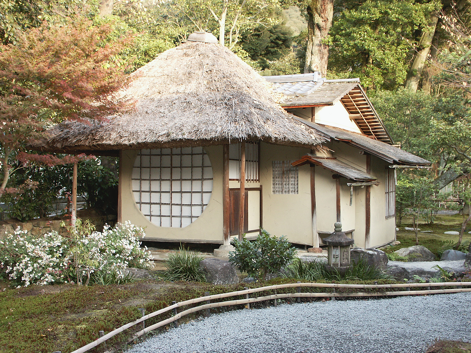 This photograph shows the Ihōan, a teahouse at Kōdai-ji in Kyoto, Japan. I took the photo and contribute my rights in the file to the public domain; individuals and organizations retain rights to images in it. 京都にある高台寺の茶室「遺芳庵」